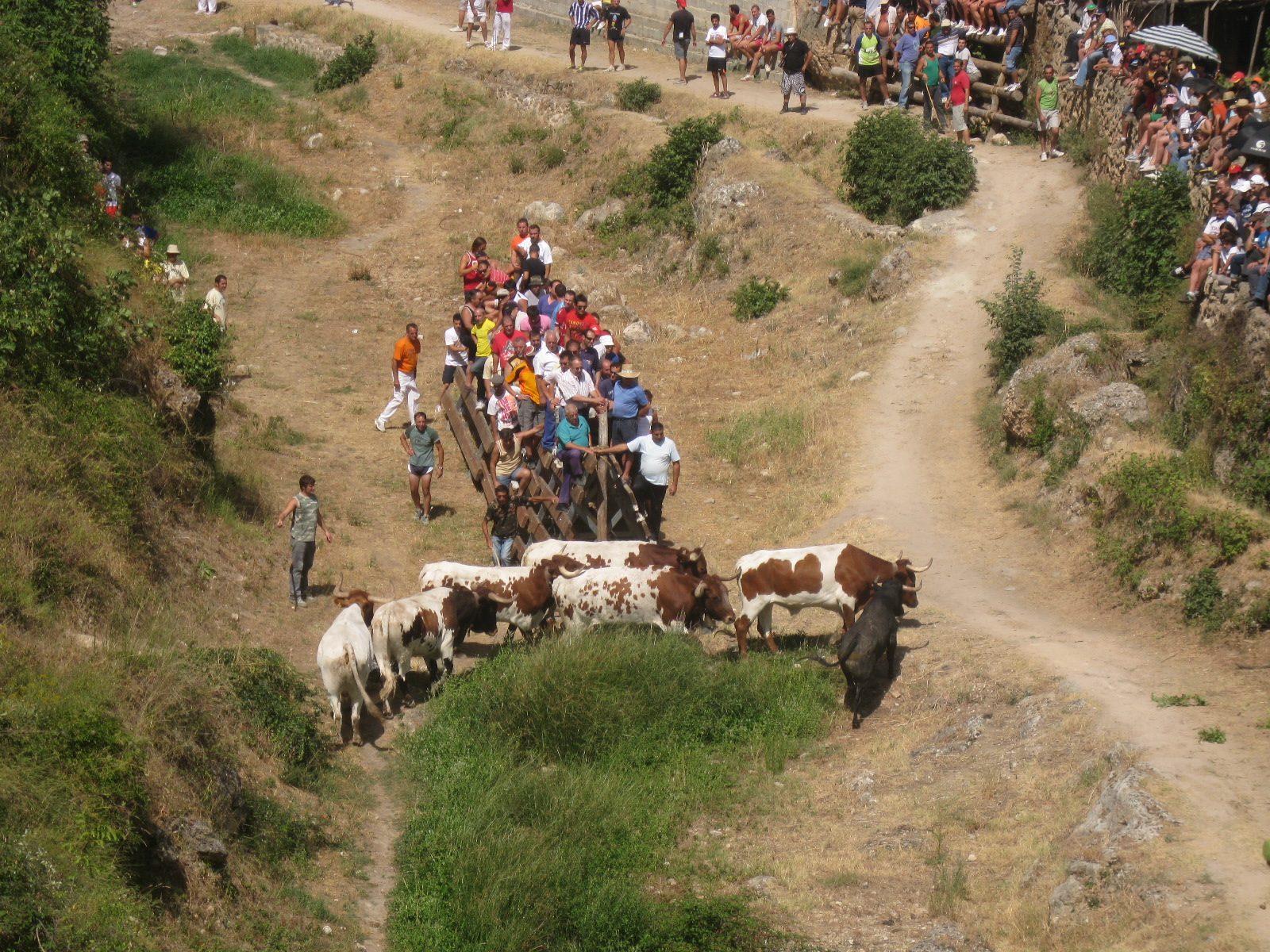 Encierro organizados los días de las Fiestas de la Asunción de Letur-11